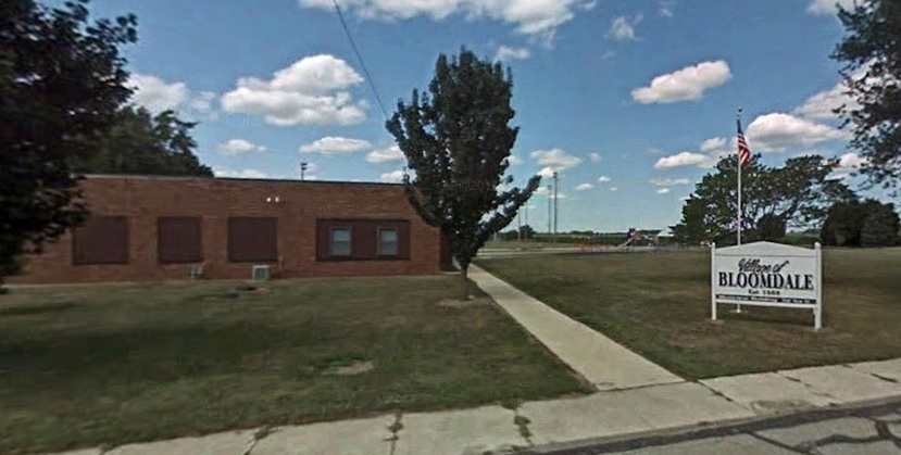 Bloomdale Village Hall East Vine Street Bloomdale Wood County Ohio